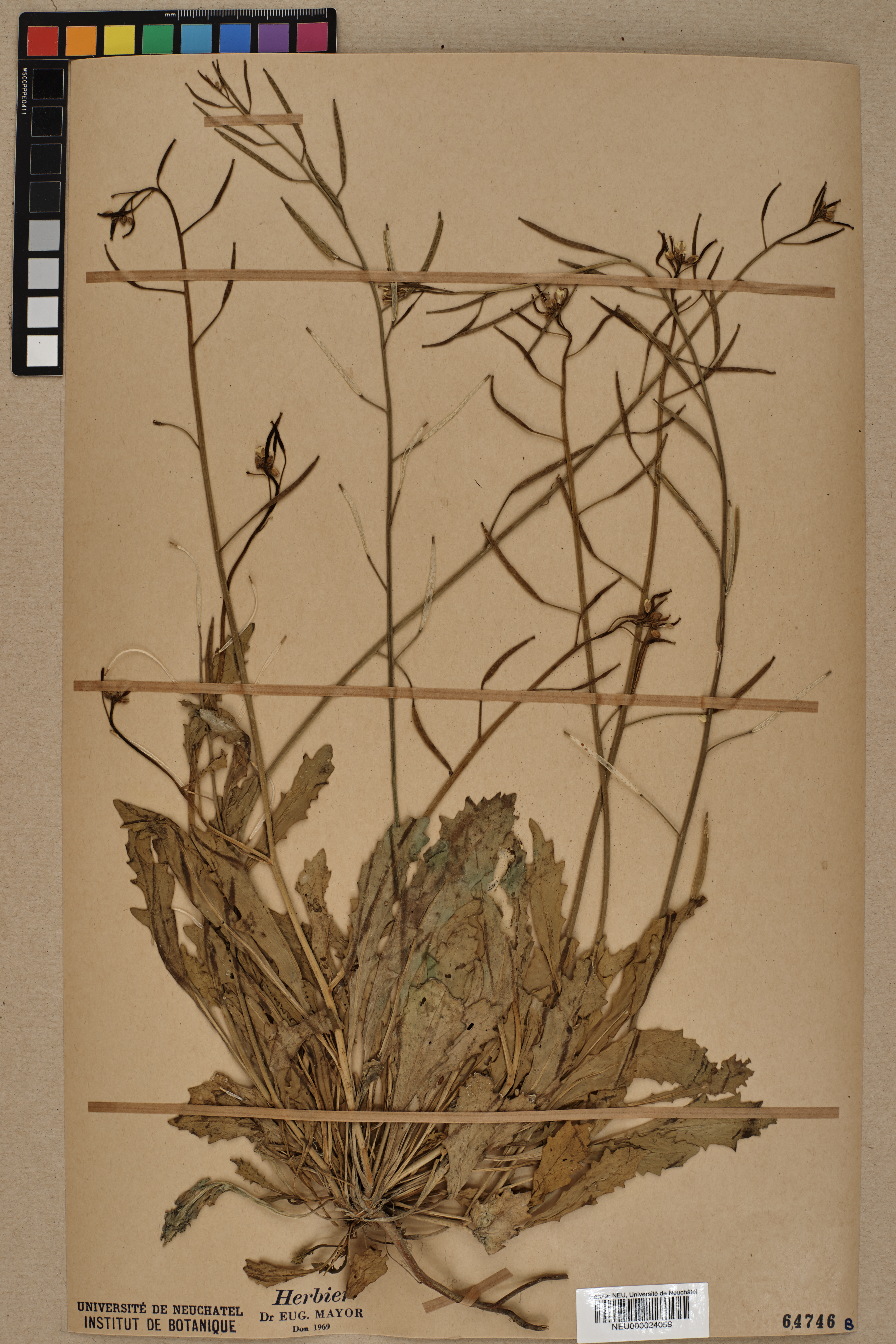 Dried pressed specimen of Diplotaxis muralis